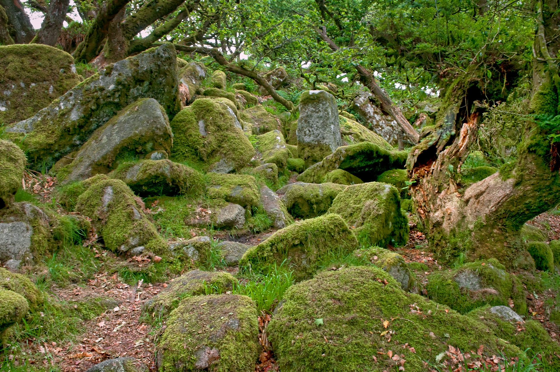 The legendary home of the infamous Wisht Hounds which roam Dartmoor for lost souls and weary travellers .. also the home to several thousand midges with a thirst for human blood!